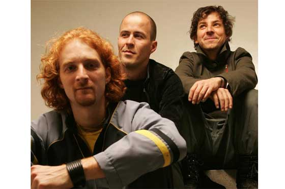 Archivo